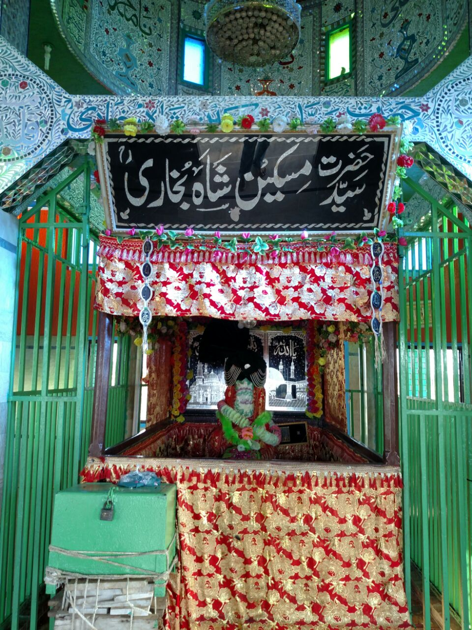 maskeen shah baba